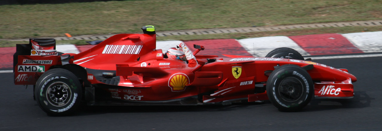 Formula One 2007 Rd.17 Brazilian GP: Kimi Räikkönen (Ferrari) won the race and the championship